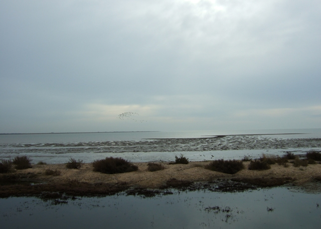 Tidal mud flats, East Mersea Looking towards Colne Point across the Colne Estuary National Nature Reserve.